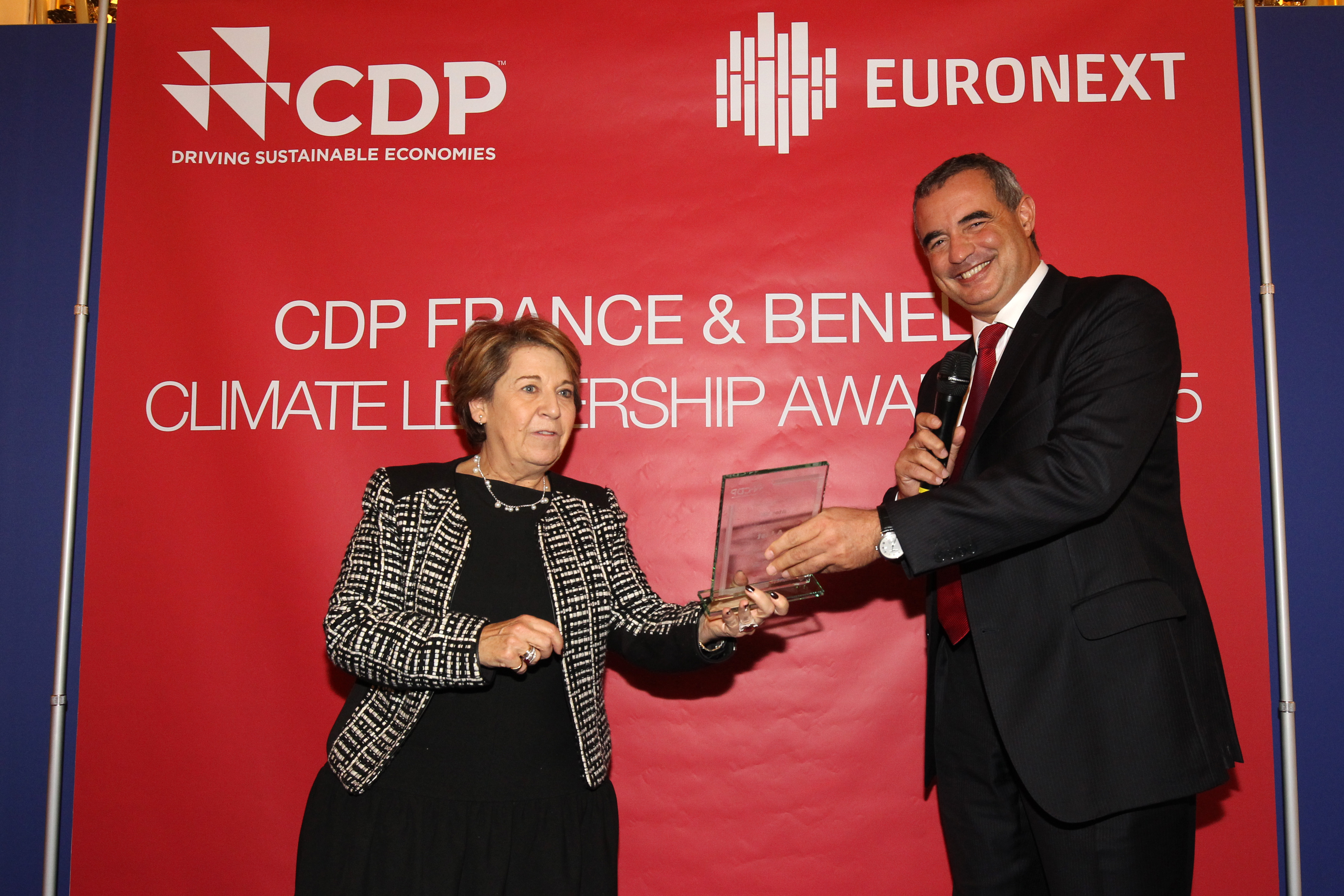 French former Minister Corinne Lepage and Atos Chief Commercial Officer Patrick Adiba at the 2015 Climate Leadership Awards